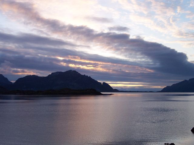 The Picture shows Vesterålen in Norway in midnight sun.